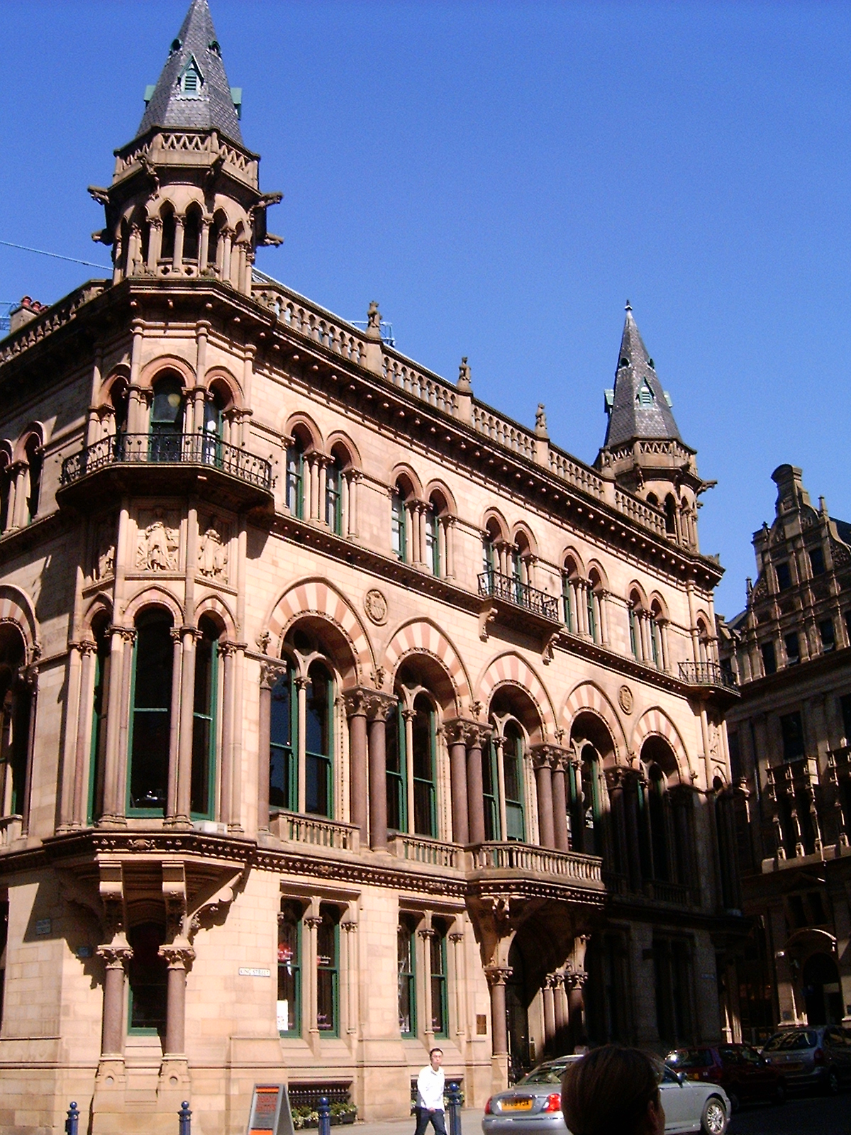 The Reform Club Building on King Street Manchester